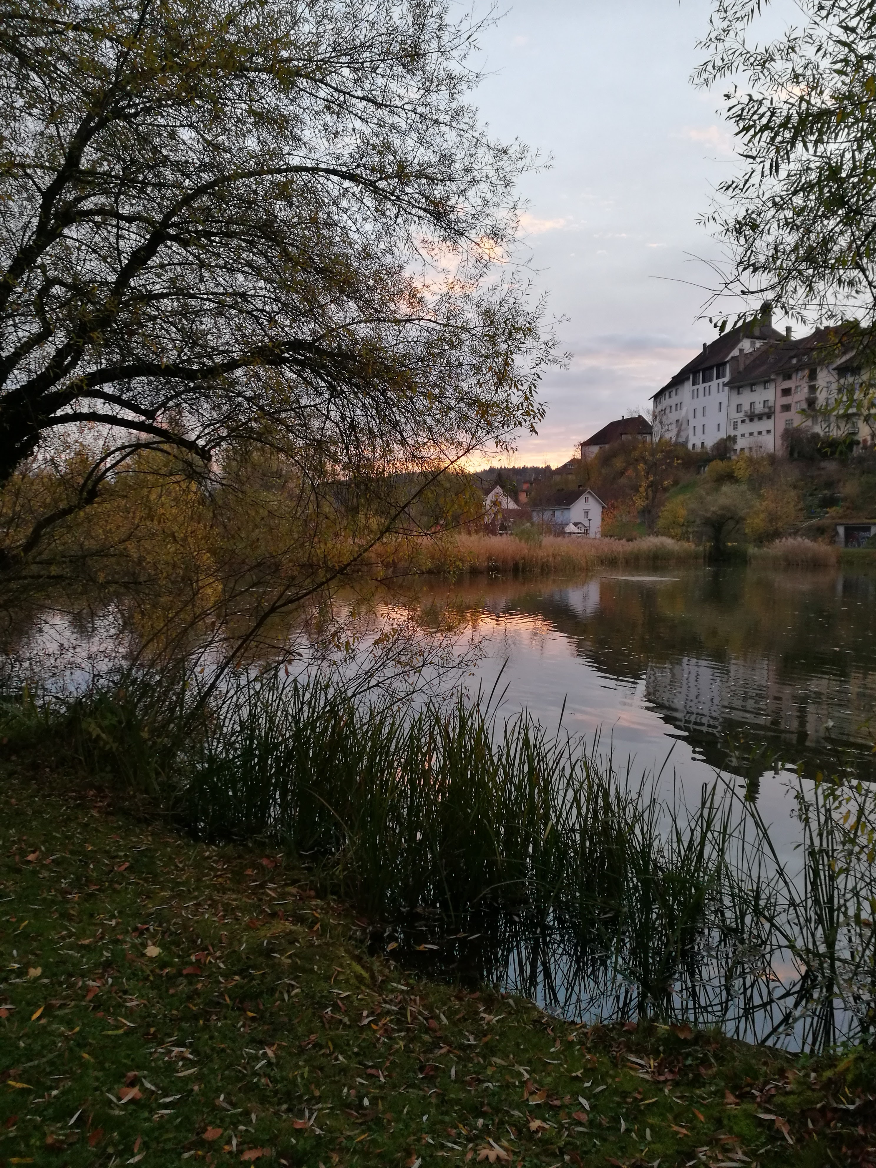 Autumn sunrise at the lake of Wil